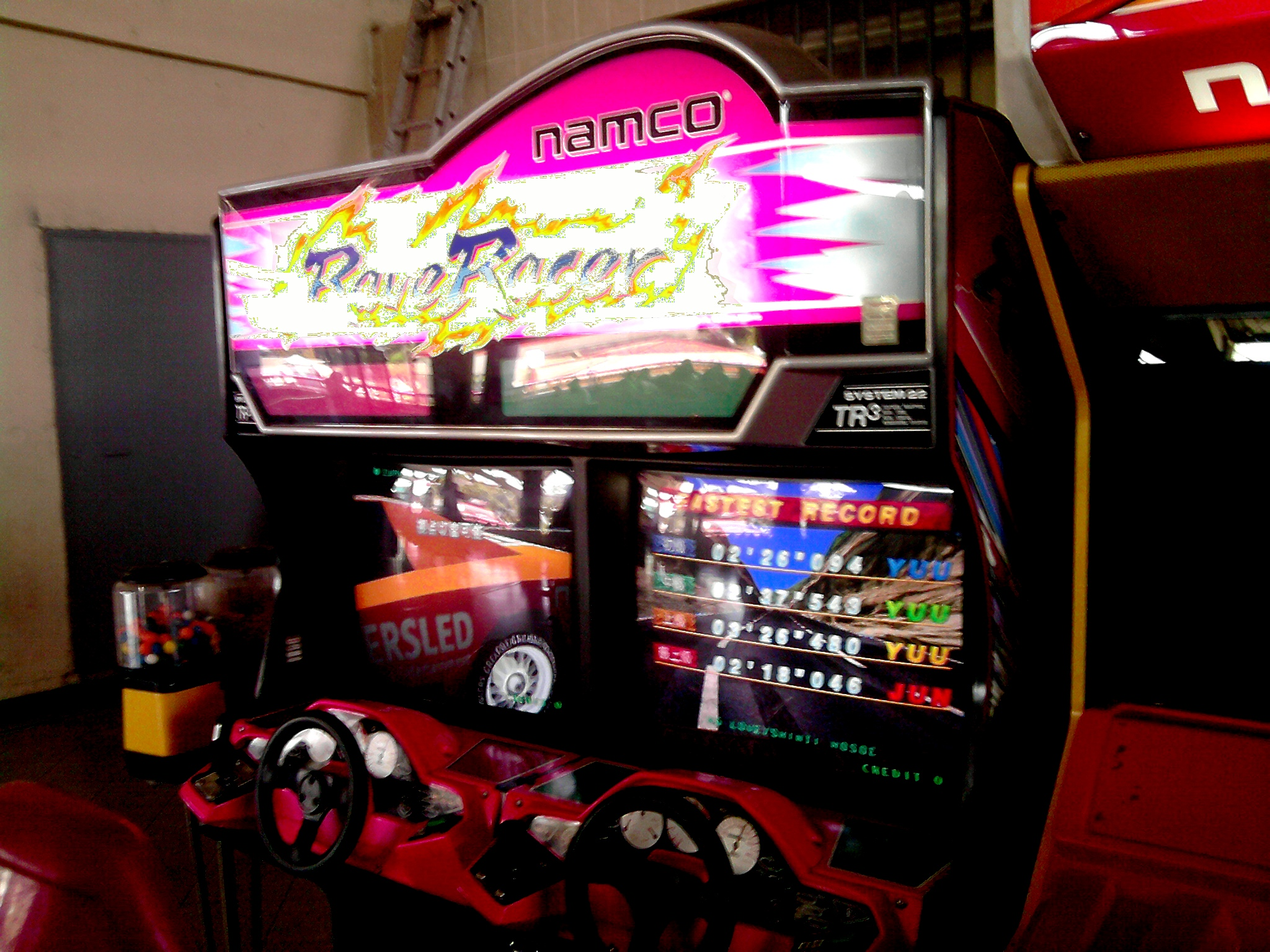 Photo of Rave racer game for Namco system 22 Console. Photo taken on March 17 2012 at Plaza Palmeras, Escuintla (Guatemala, Central America) by chepe263